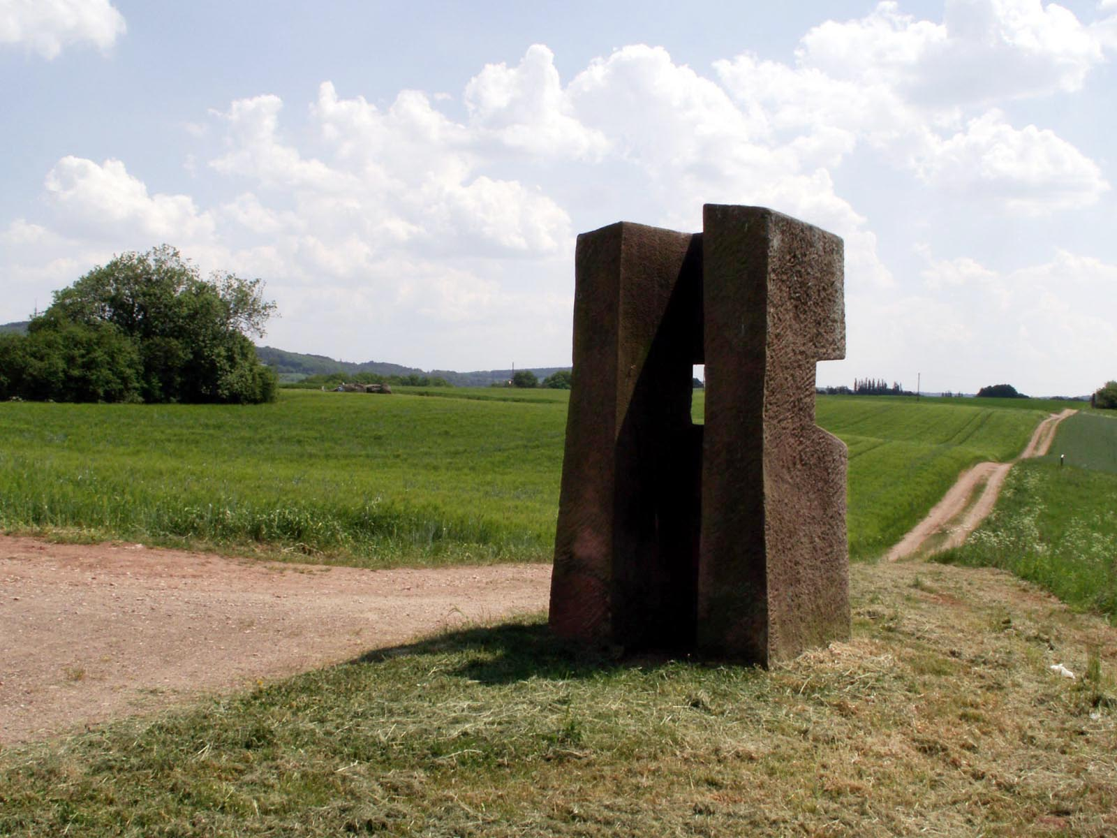 Street of Sculptures - Strasse der Skulpturen - Paul Schneider, Durchblick in die Landschaft, 1972